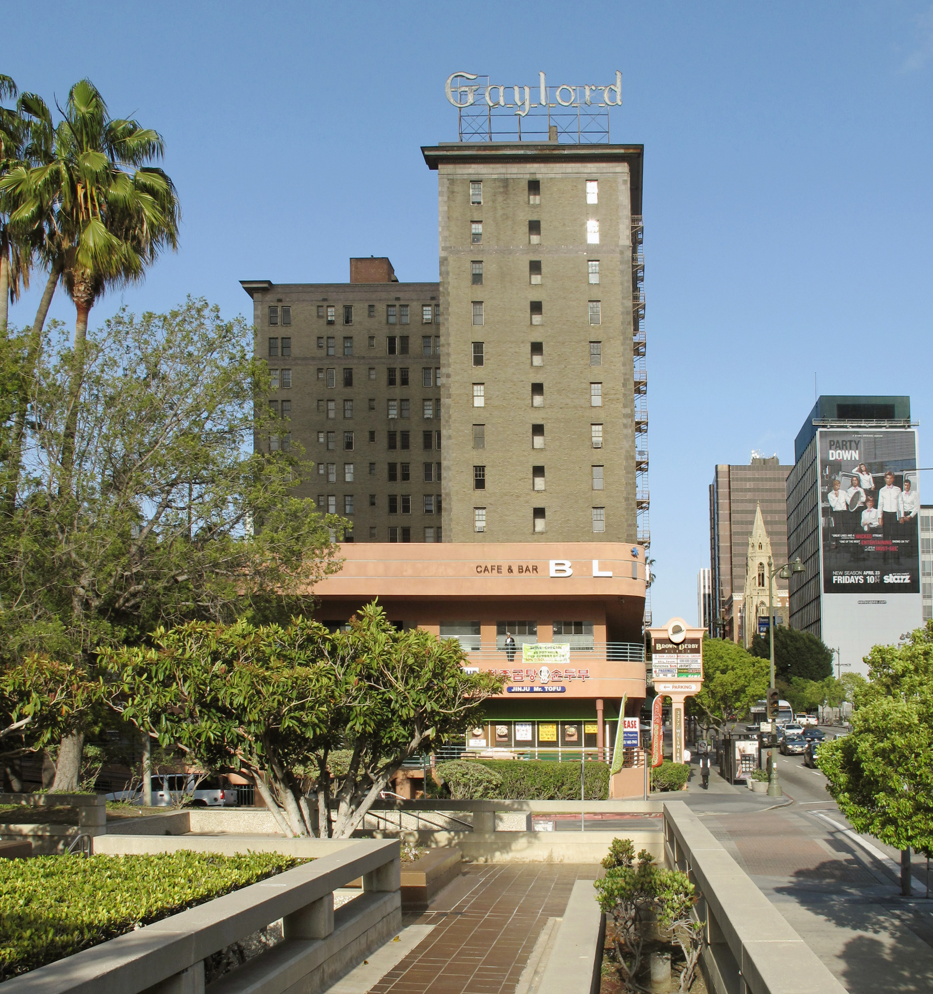 The Gaylord Apartments, formerly the Gaylord Hotel, on Wilshire Boulevard in Los Angeles, California. Immanuel Presbyterian Church can be seen in the background. The Gaylord faces the site of the old Ambassador West Hotel, now owned by the Los Angeles Unified School District. Photo is taken from the plaza of the Equitable Life Insurance Building.